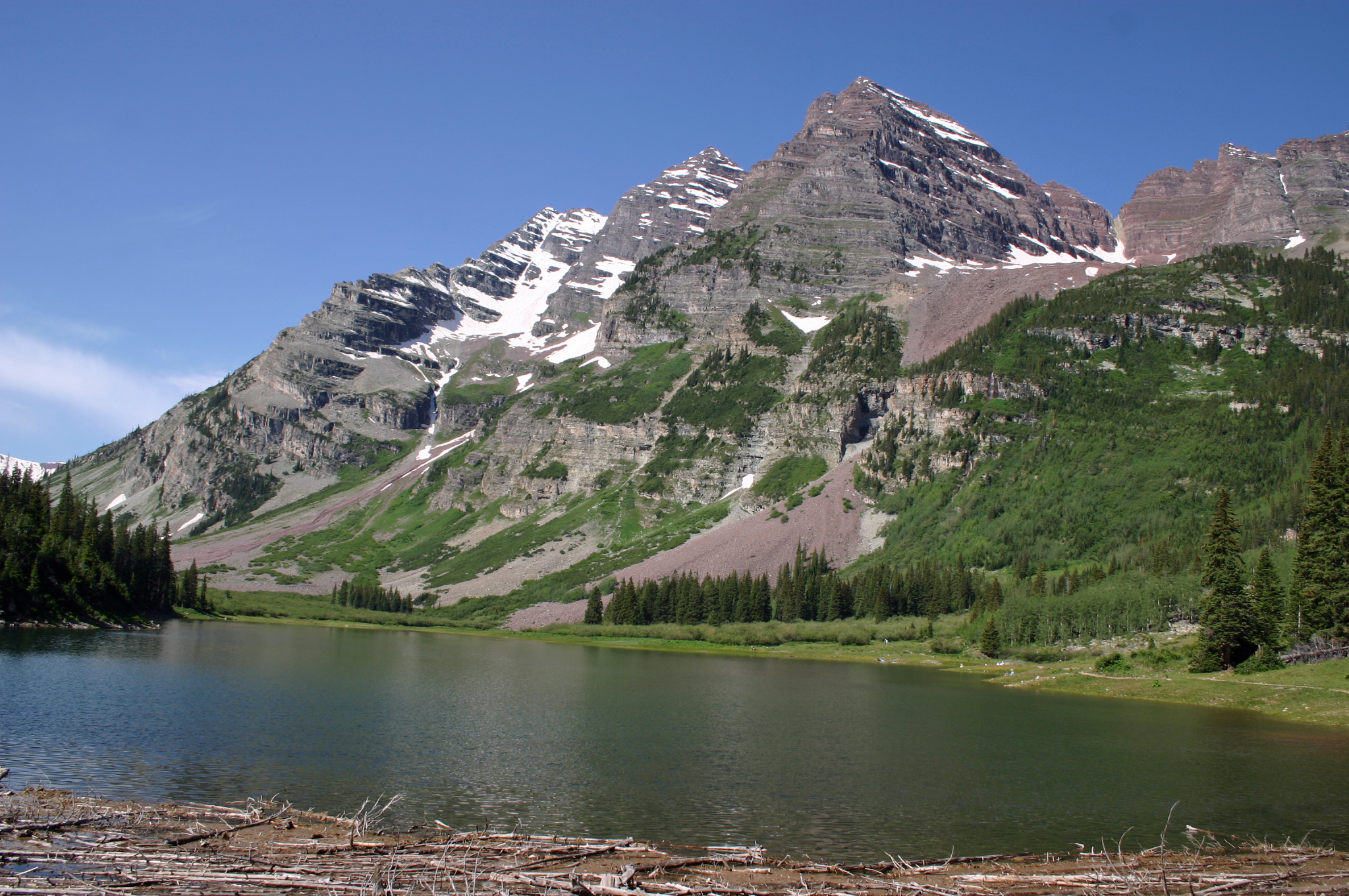 The Maroon Bells Mountain in the Elk Mountains in Colorado. Picture taken in July 2004.